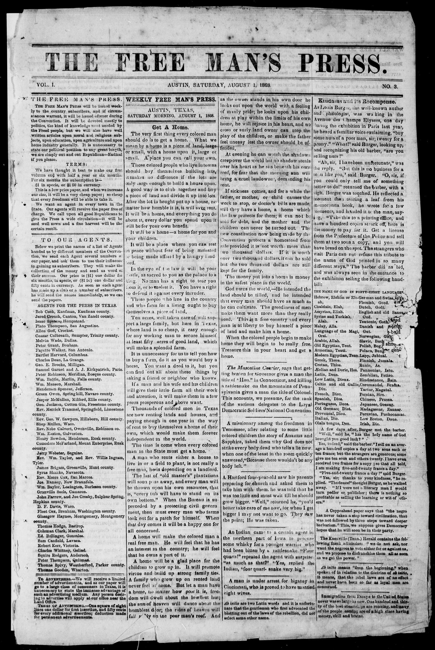 Front page of the third issue of The Free Man's Press, the first known African American newspaper in Texas, published in Austin on August 1, 1868.